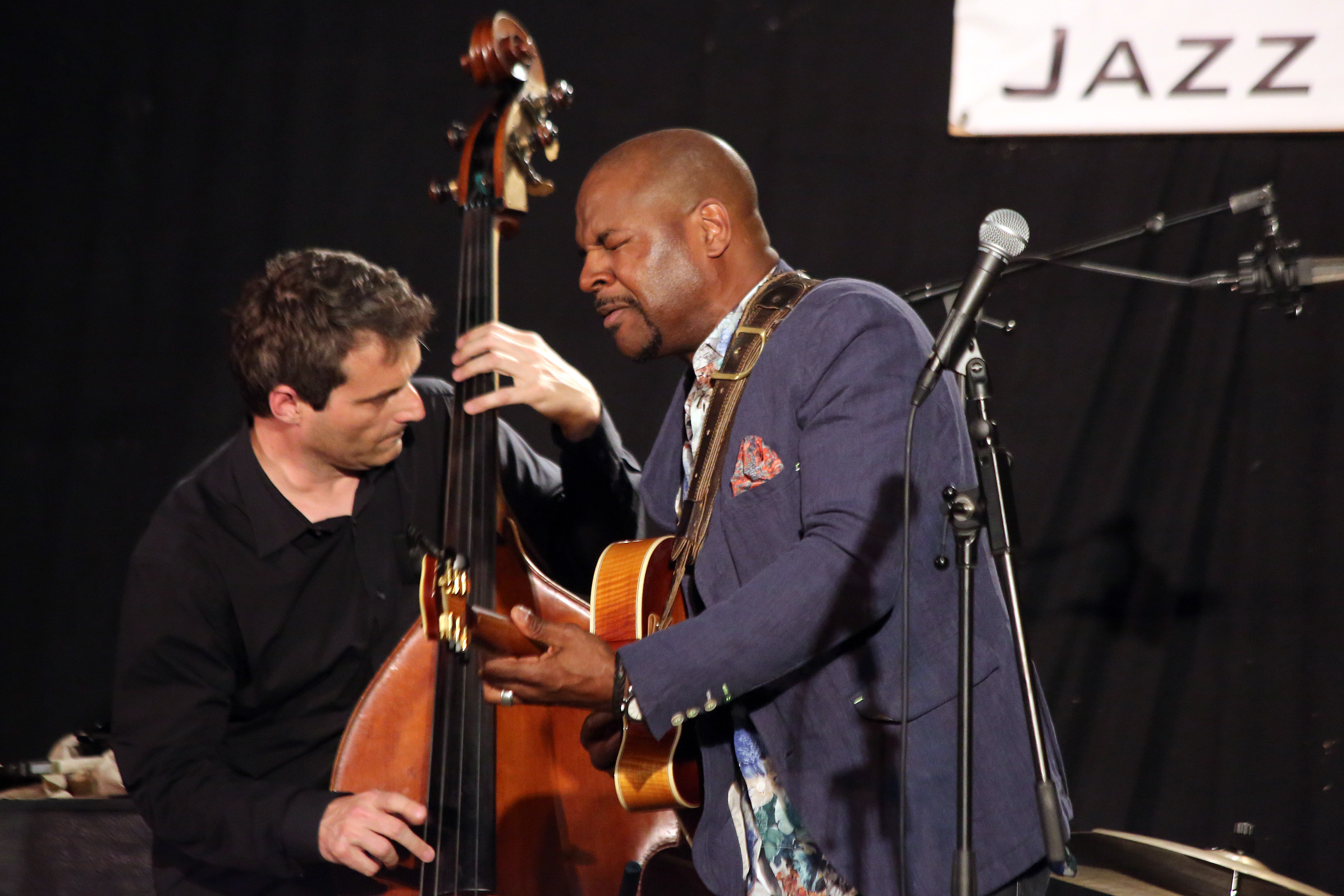 Bobby Broom (git), Dennis Carroll (b), Makaye McCraven (dr) - INNtöne Jazzfestival (Diersbach, Upper Austria)